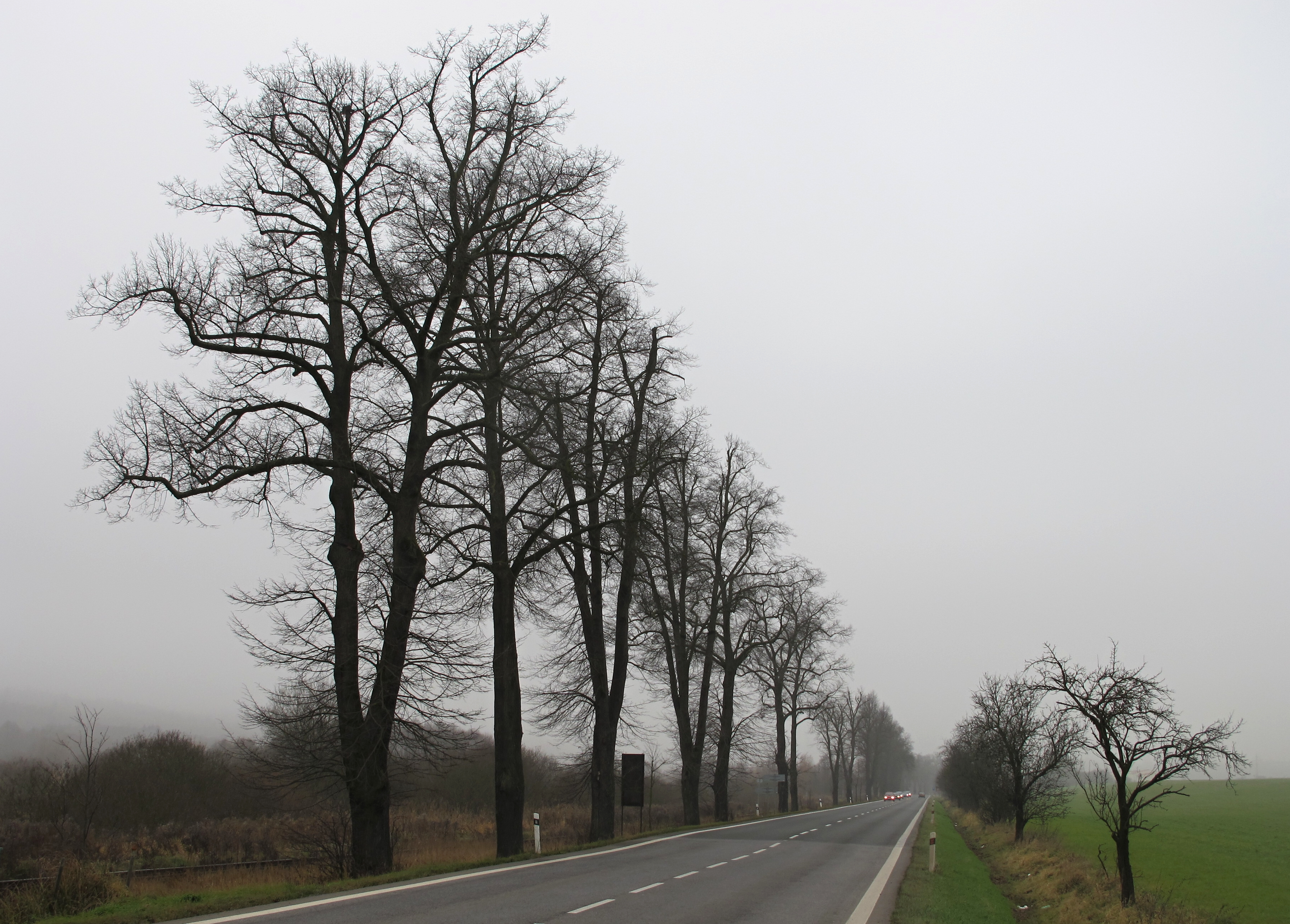 Famous trees - alley between Turnov and Sedmihorky, Semily District in Czech Republic